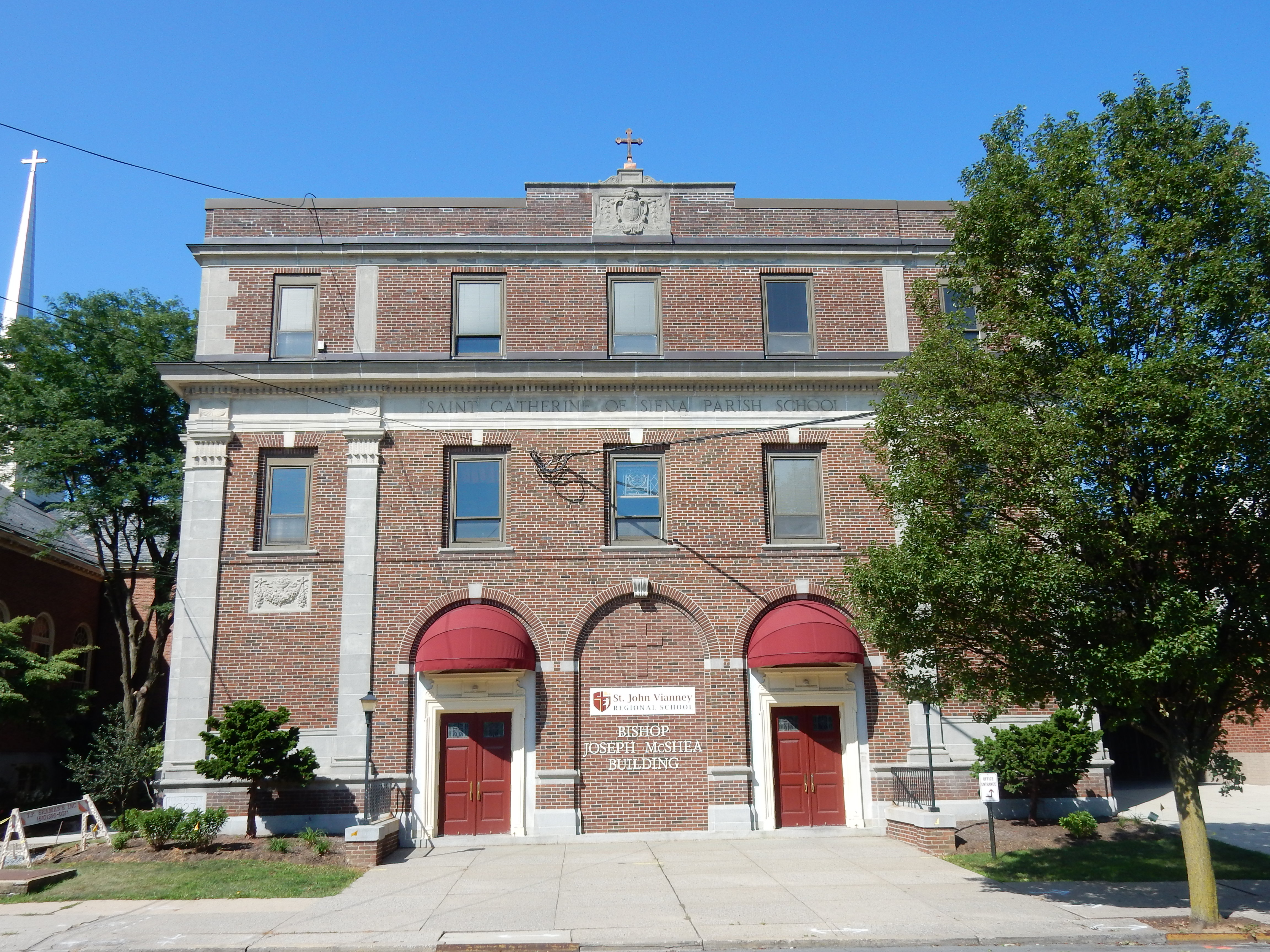 Saint Catharine of Siena Parish School, St. John Vianney Regional School, Bishop Joseph McShea Bldg., 210 N. 18th St., Allentown, Pennsylvania.